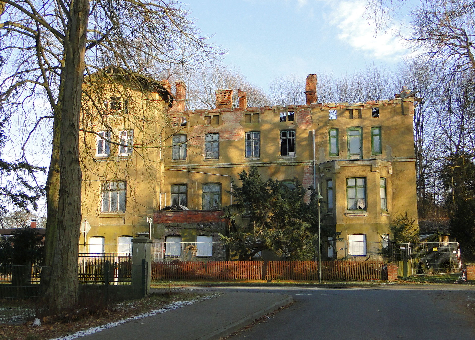 Fire ruin of the former manor administration building in Gresse, district Ludwigslust-Parchim, Mecklenburg-Vorpommern, Germany